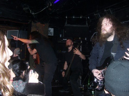 Dååth in London, Oct. 10, 2009 supporting Chimaira.